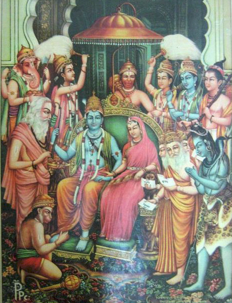 Rama's coronation, 1940